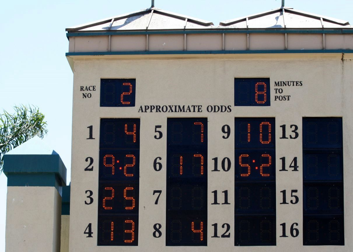 Tote Board at Hollywood Park Racetrack — in Inglewood, Greater Los Angeles area, California. 2013 planned closure/demo for new housing/commercial developments.